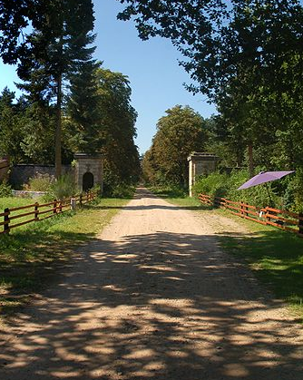 Former entrance to the Carinhall estate